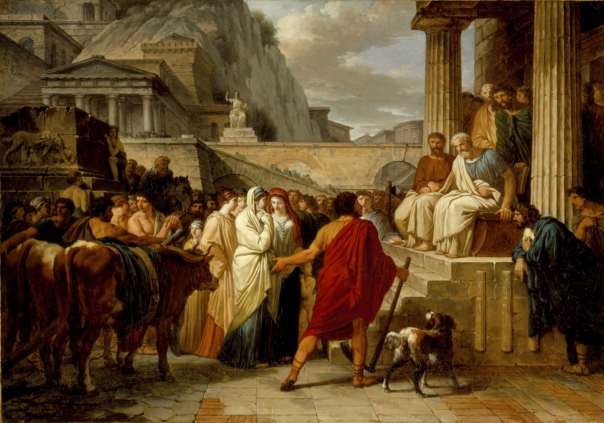 Switzerland, 1792 Paintings Oil on walnut panel 19 x 27 in. (48.26 x 68.58 cm) Purchased with funds provided by The Jones Foundation, B. Gerald Cantor, Drs. Aldona and Jorge Hoyos, Miss Carlotta Mabury, Isaacs Brothers Company, Museum Associates Acquisition Fund, and Mr. and Mrs. Allan C. Balch Collection by exchange (M.82.119) European Painting